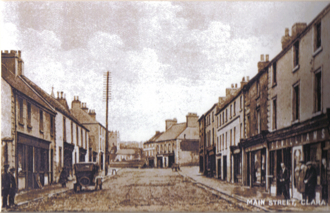 Main Street in Clara, King's Co. (Offaly) c. 1915